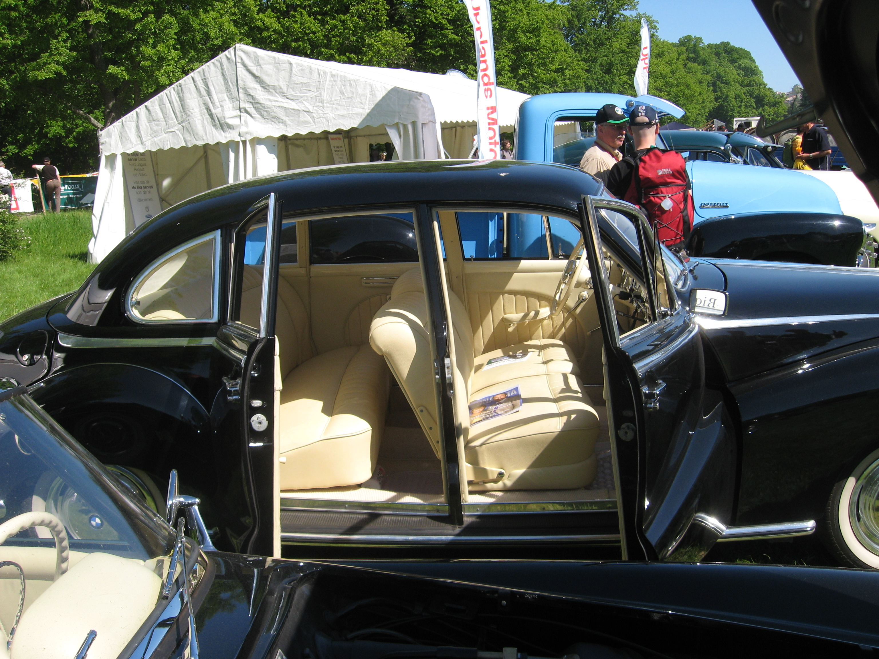 This configuration with only a rear suicide door is often called "kidnapping doors".